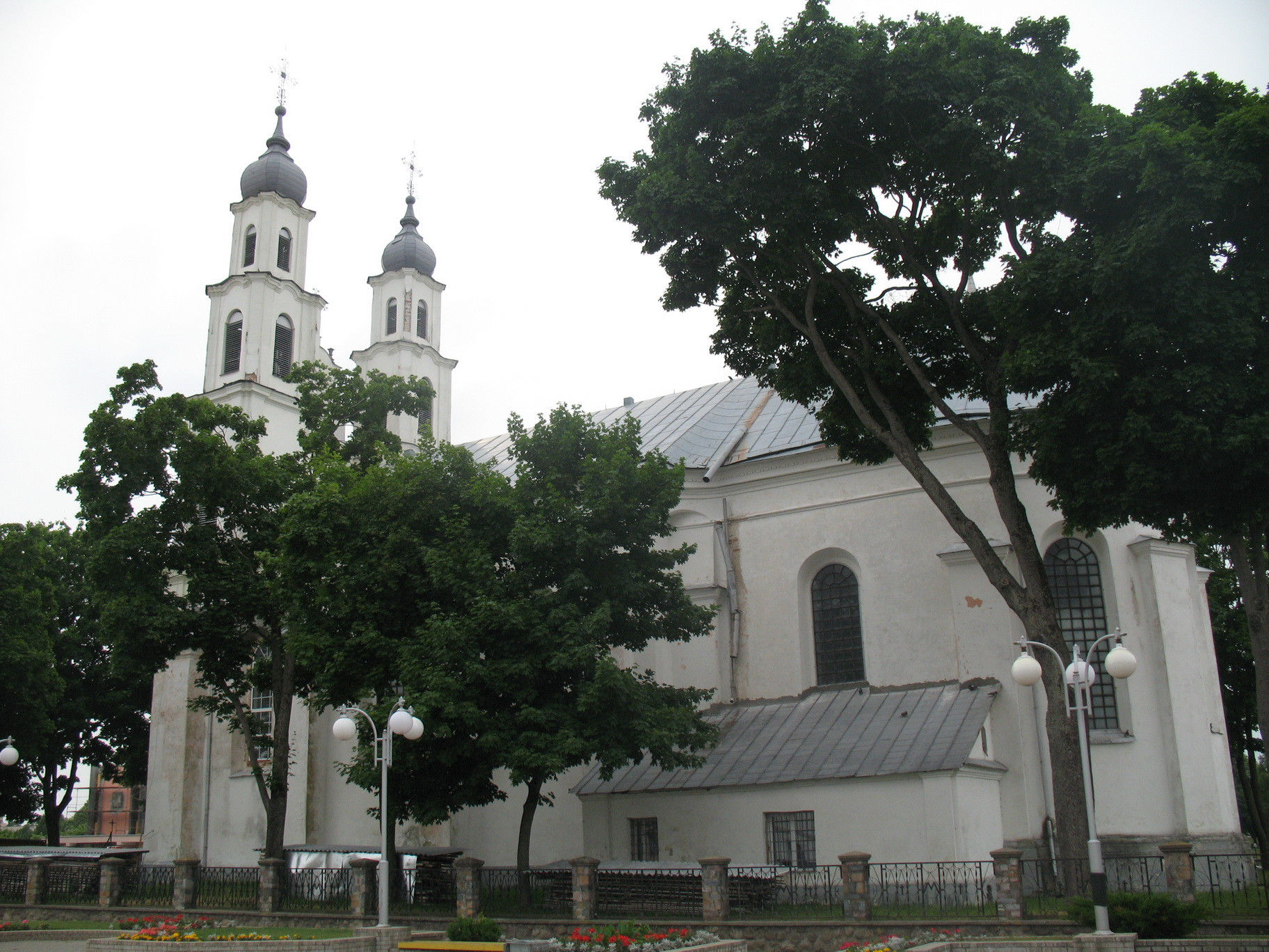 Catholic church of the Assumption in Dziatłava, Belarus